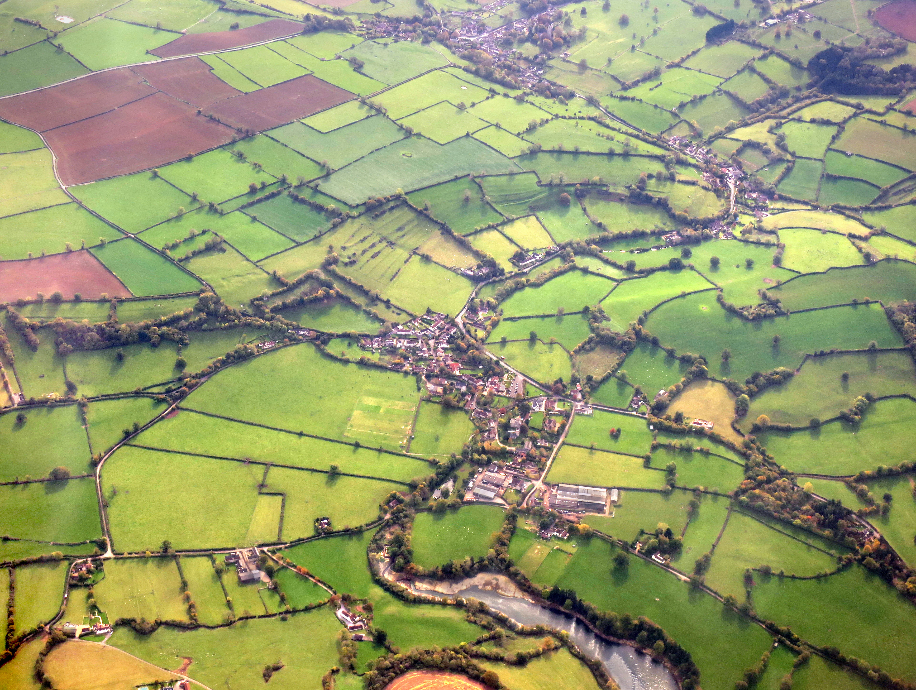 An aerial view of Litton in the Mendip Hills, England.